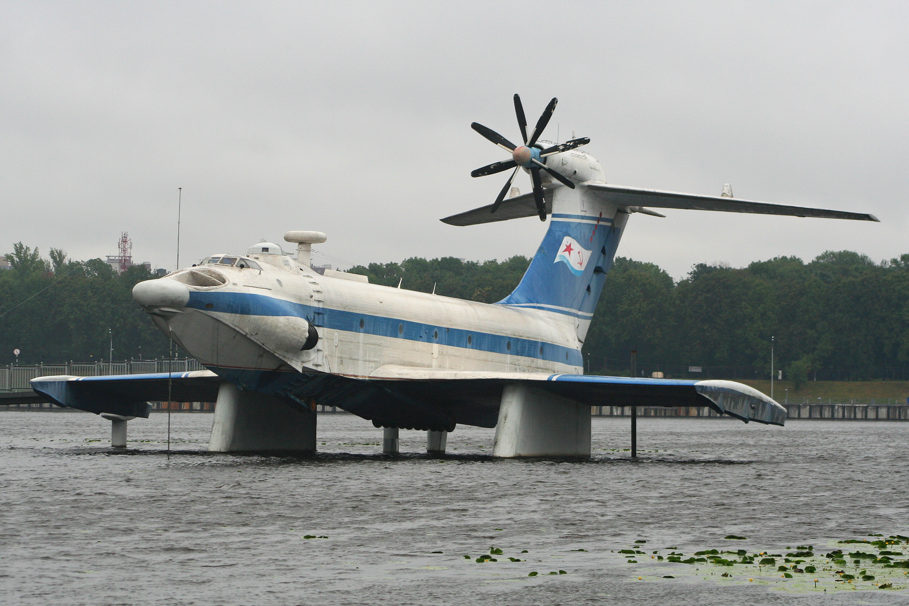 One of the amazing 'Caspian Sea Monsters', which is more accurately titled an 'Ekranoplan' or 'ground effect vehicle'. This example is an Alexeyev A-90 'Orlyonok', which translates as 'Eaglet'. Built in 1980, it served with the Russian Navy as '26 white' until at least 1993. It is msn 25508108085 and line number S-26. It is now on permanent display next to Severnoye Park in the Tushino region of Moscow. 14-8-2012